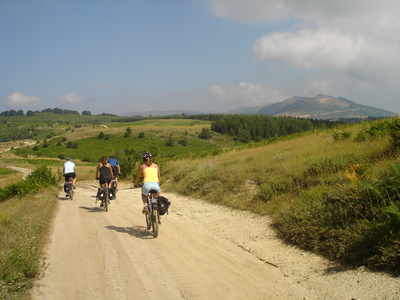 Mountbiking on Busheva Mountain near Krushevo, Macedonia